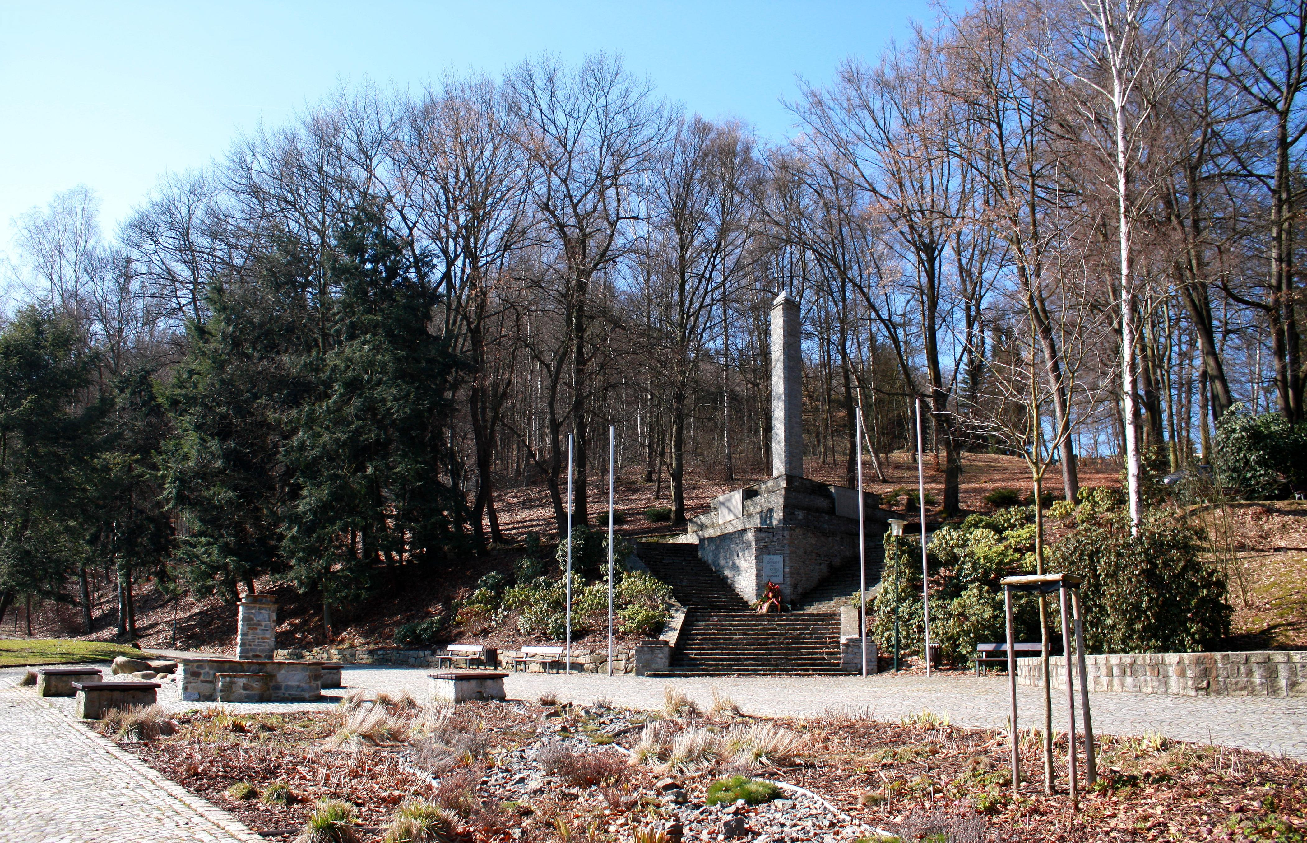 Rockelmann park with War Memorial at Schwarzenberg (Erzgebirge), Saxony, Germany